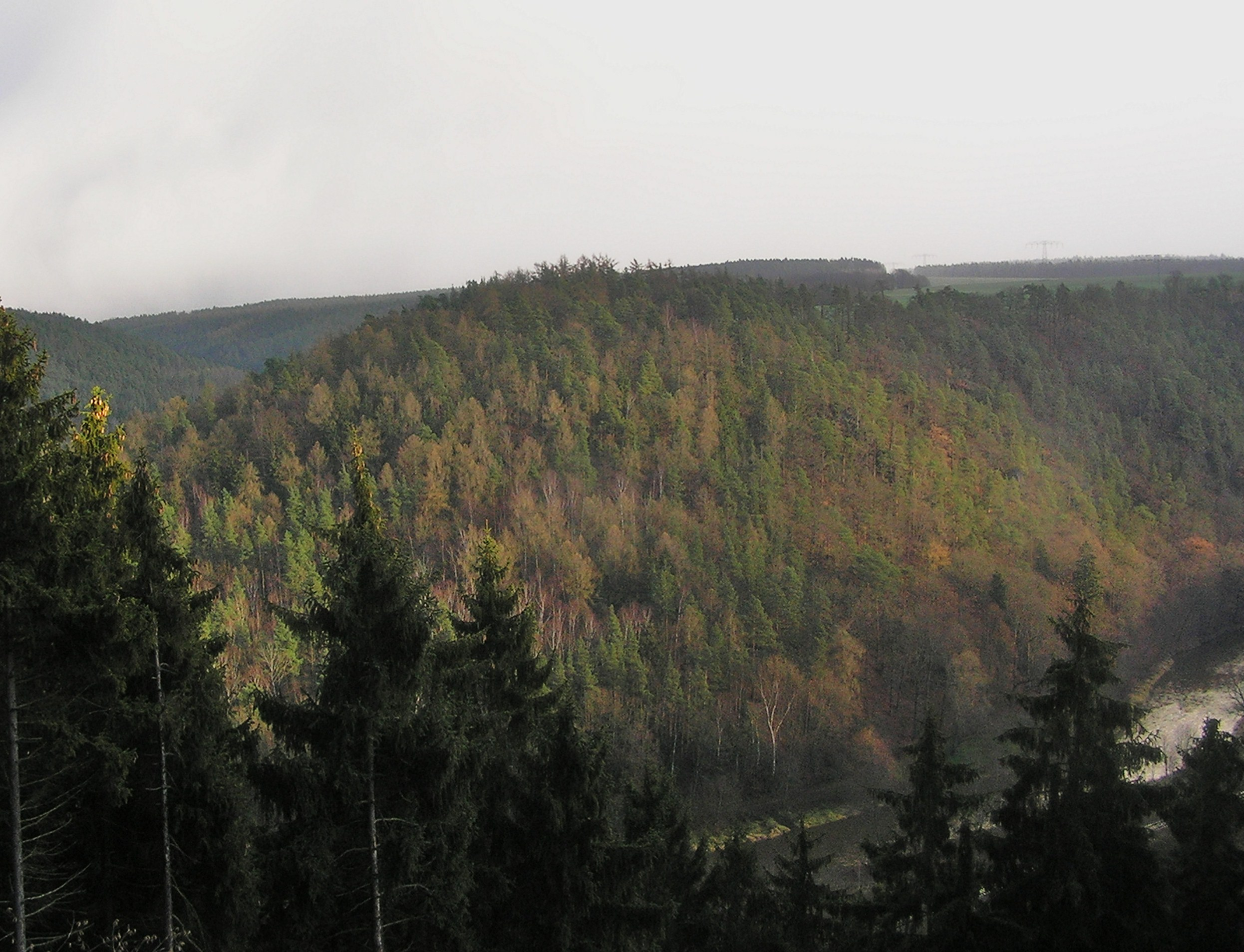 Plateau over the Elster at Großdraxdorf